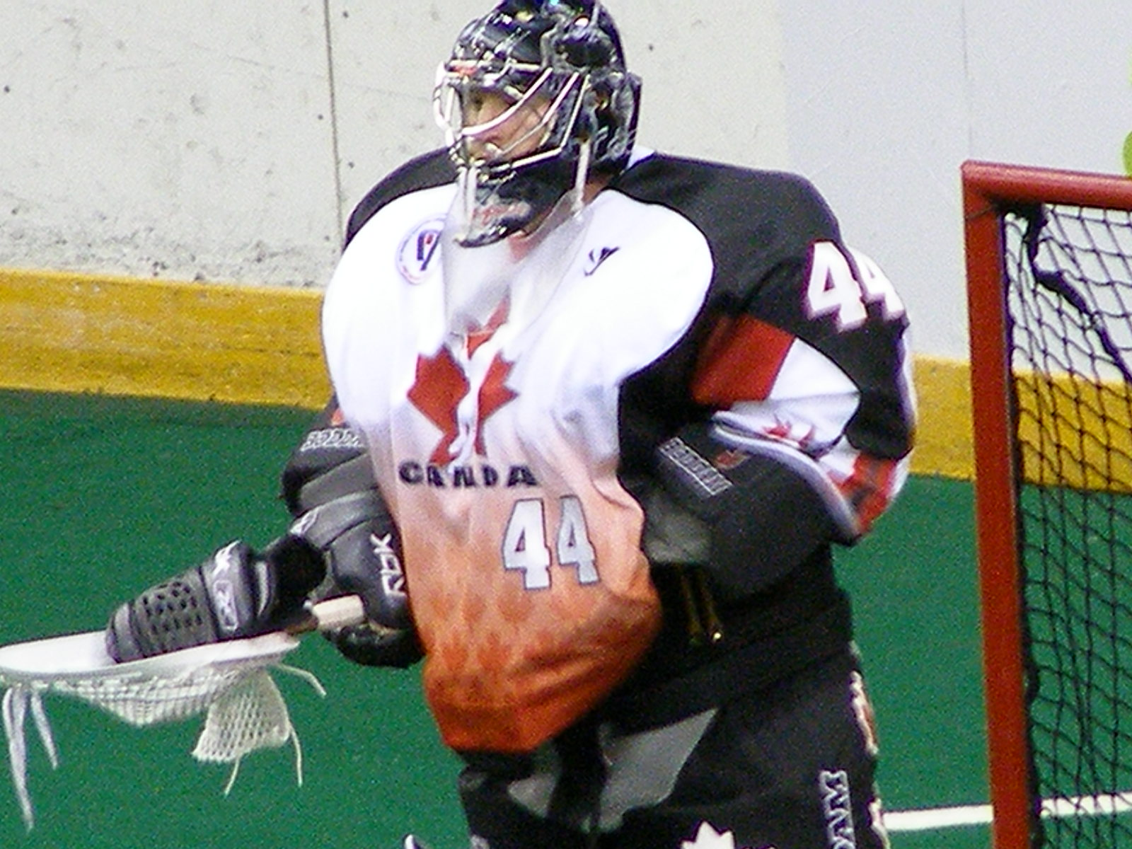 Goaltender from Canada national indoor lacrosse team at 2007 World Indoor Lacrosse Championship in Halifax